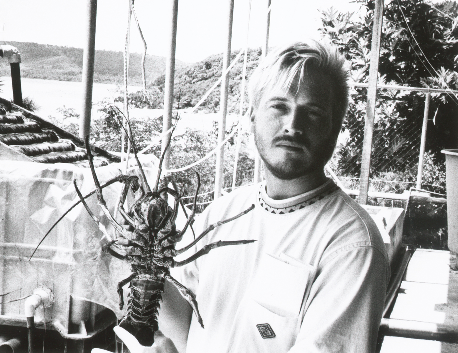 Daniel Ray Norris with lobster at University of Guam Marine Laboratory